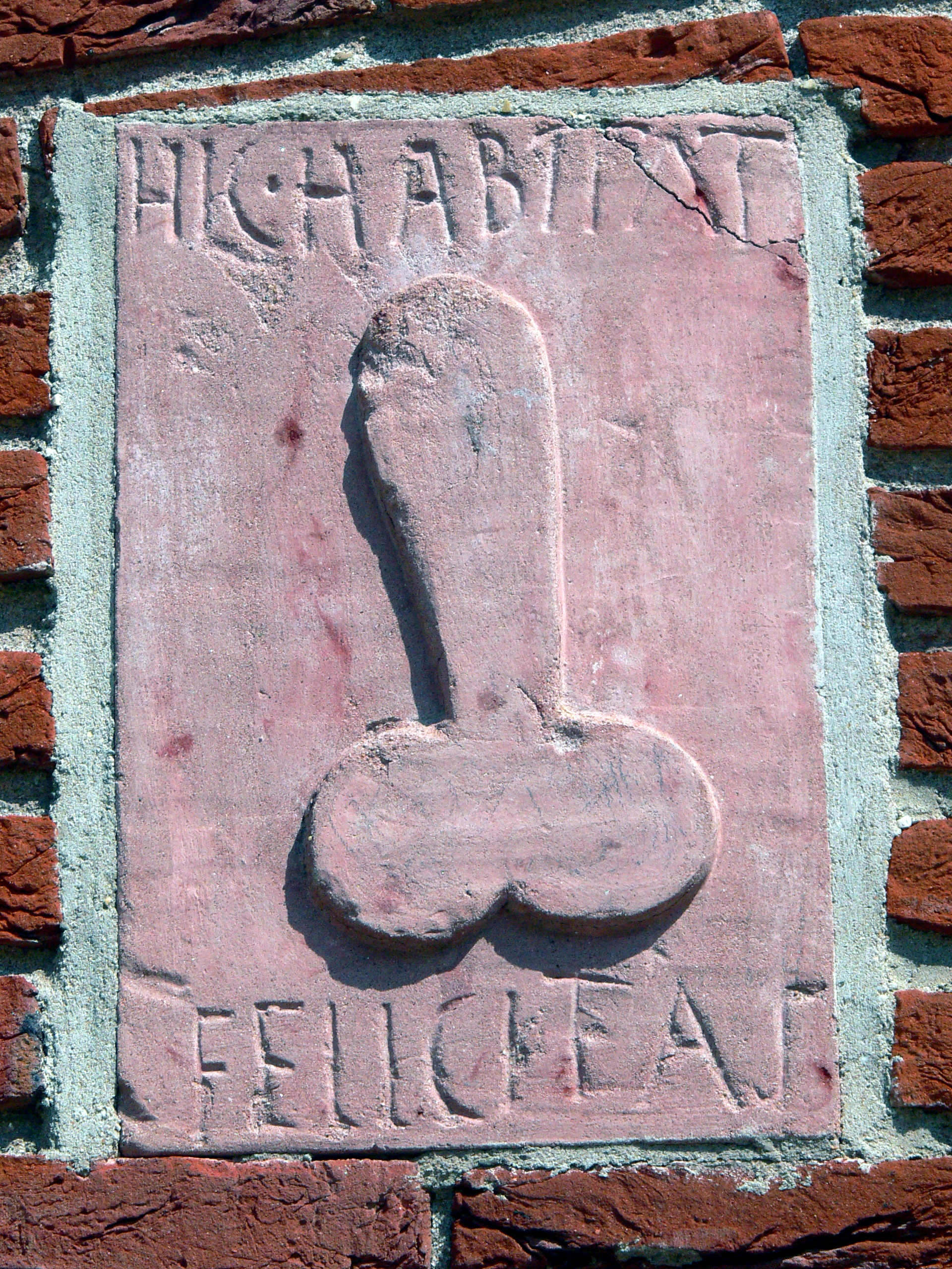 Bible open air museum in Nijmegen. Roman town: Sign at a brothel with Latin inscription "Hic habitat felicitas" ("Here live happyness" or "Here lives good fortune"). The original was found in Pompeii outside of a bakery (not a brothel!), was an amulet against bad luck, and is to show in the Museo Archeologico Nazionale (Naples), in the erotic collection called by the Bourbons "Gabinetto Segreto".Copy of CIL IV, 1454 (Alison E. Cooley and M.G.L. Cooley, Pompeii : a sourcebook, London, 2004, p. 90-91, n° E24), from the "regione sesta, isola sesta, località 17 [VI.6.17]" (Giuseppe Fiorelli, Descrizione di Pompeii, Napoli, 1875, p. 104-105). Cf. Id., Raccolta pornografica. Catalogo del Museo Nazionale di Napoli, 6, Napoli, 1866, p. 10, n° 73. Original at Napoli, before at Pompeii. May see also : CIL III, 5561 and CIL X, 8053